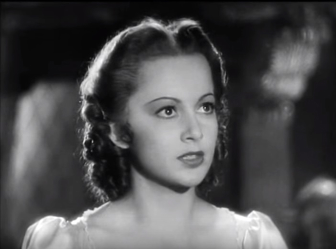 Cropped screenshot of Olivia de Havilland from the original trailer for the film Captain Blood, 1935